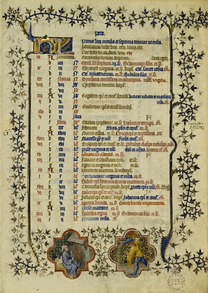 A leaf from the "Calendarium Parisiense".